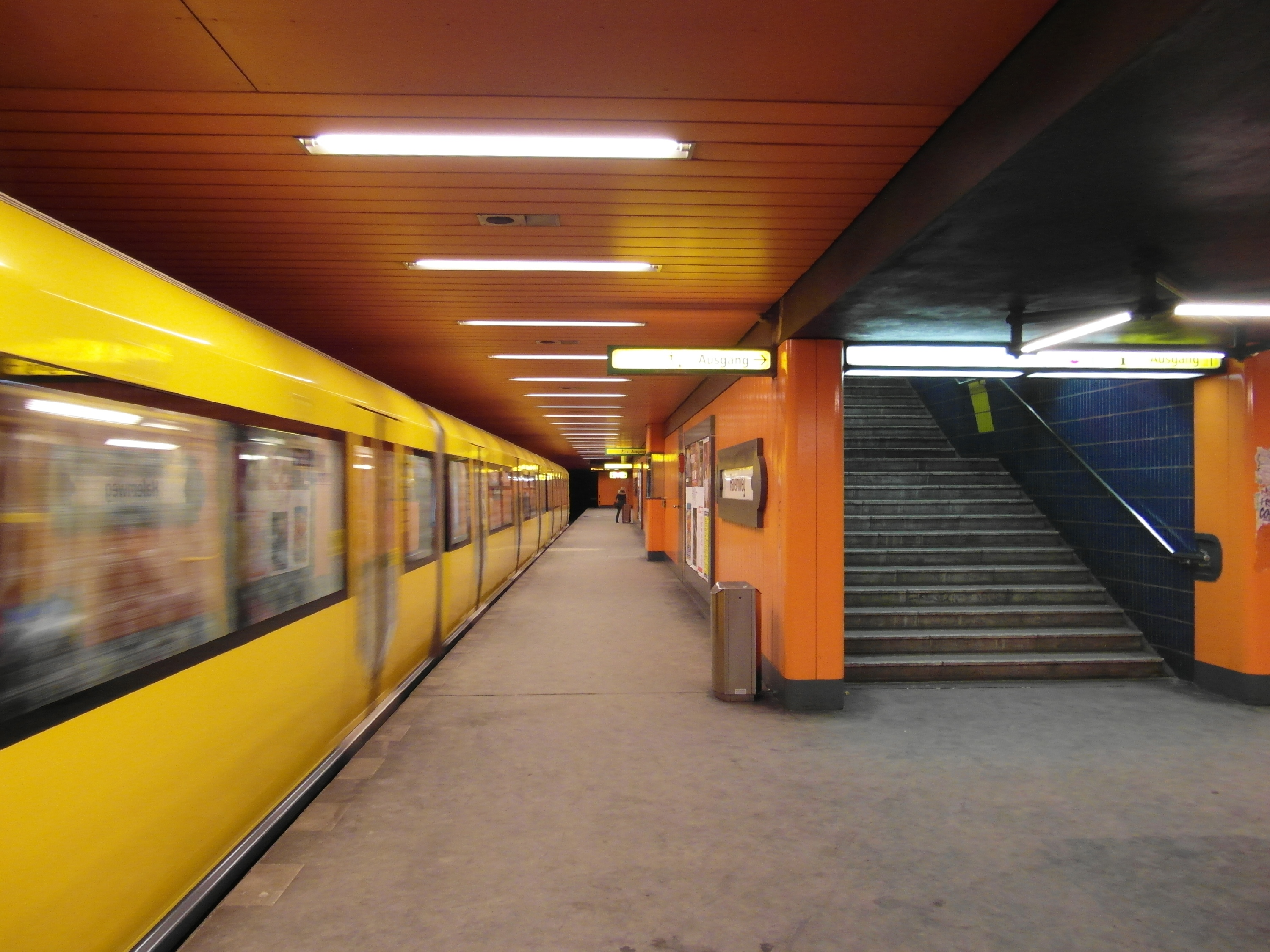 Halemweg underground station, Line U7, Berlin, Germany